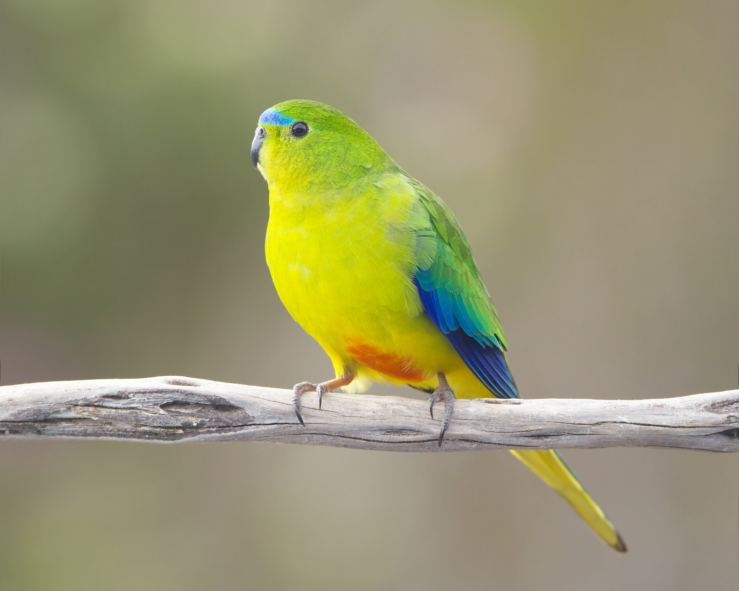 Orange-bellied Parrot (Neophema chrysogaster) male, Melaleuca, Southwest Conservation Area, Tasmania, Australia.